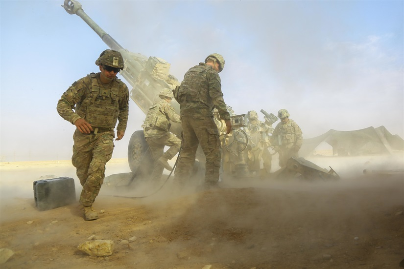 U.S. Army soldiers assigned to 5-25 Field Artillery, Charlie Battery, 2nd Platoon fires a Howitzer M-777 A2 provides fire support for Iraqi Security Forces near Al Qaim, Iraq, Nov. 07, 2017. The strikes were conducted as part of Operation Inherent Resolve. Combine Joint Task Force-OIR is the global Coalition to defeat ISIS in Iraq and Syria